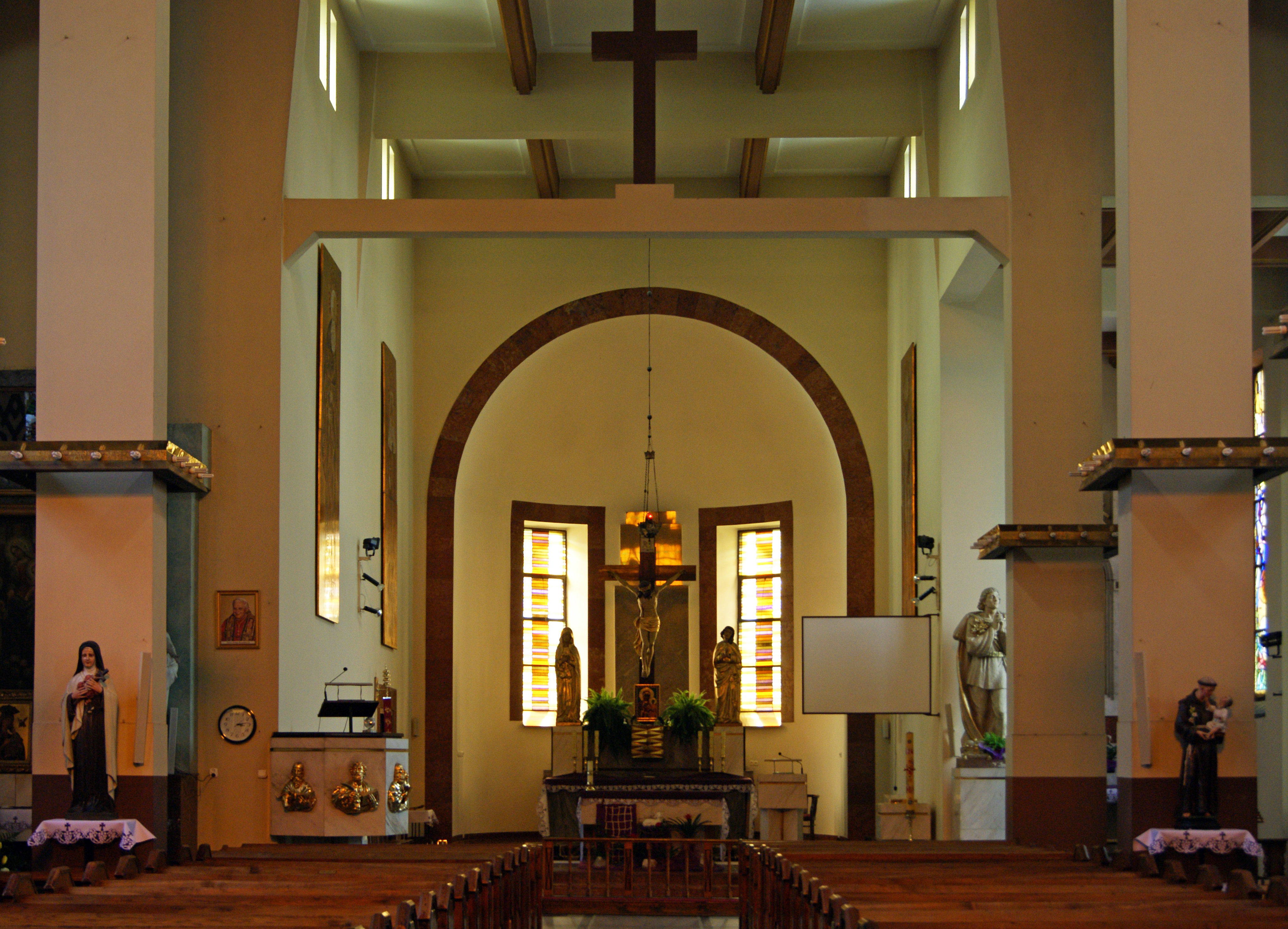 Church of St. Casimir Jagiellon (interior), 78 Grzegórzecka street, Grzegorzki, Krakow, Poland